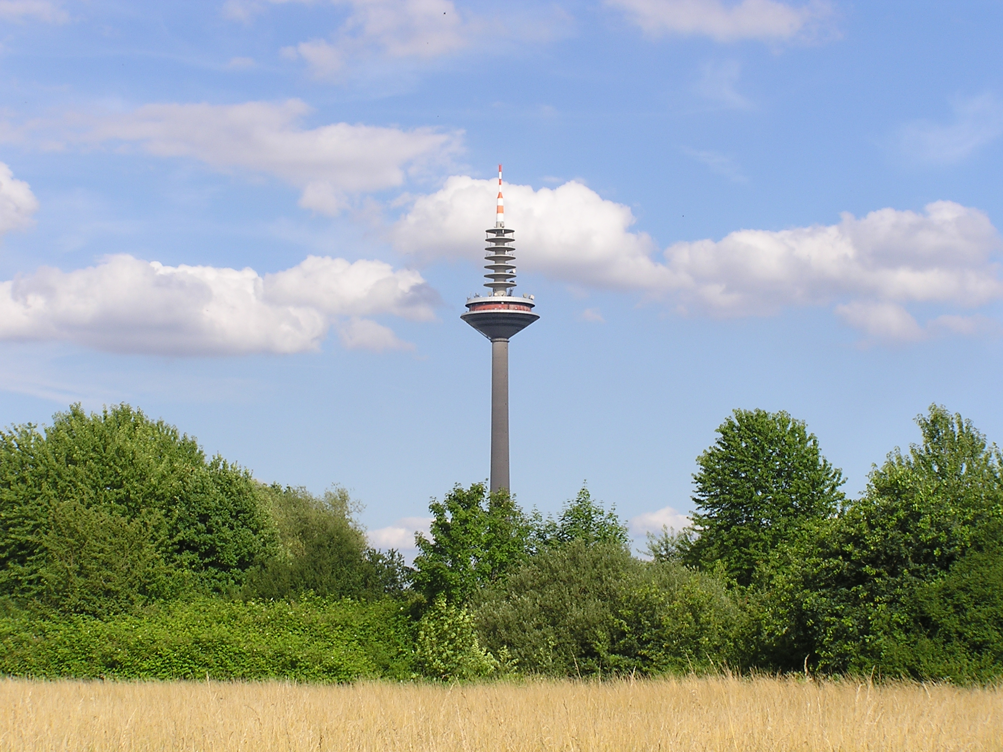 The Europaturm, as seen from the Volkspark Niddatal